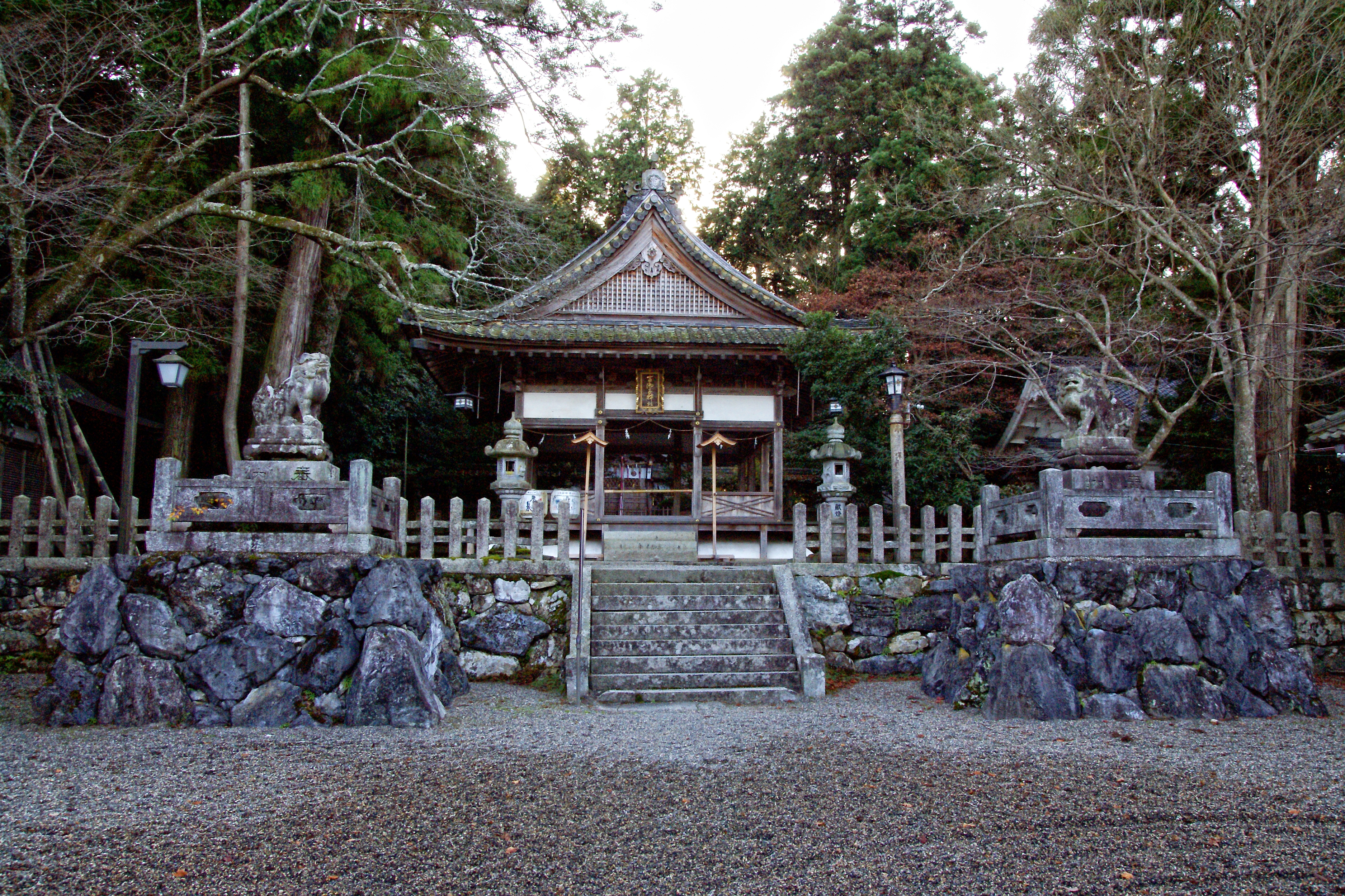 Yoshimiko-jinja in Konan, Shiga prefecture, Japan